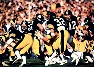 A football card from the 1986 Jeno's Pizza NFL football card stickers set of Pittsburgh Steelers quarterback Terry Bradshaw hands the ball off to fullback Franco Harris against the Los Angeles Rams in Super Bowl XIV. The card is numbered #46 in the set. The back of the card reads: PITTSBURGH MAKES IT FOUR IN A ROW Terry Bradshaw hands the ball to Franco Harris, as the Pittsburgh Steelers come from behind to beat the Los Angeles Rams 31-19 in Super Bowl XIV. The win gave the Steelers a remarkable four wins in four Super Bowl appearances. Bradshaw passed for 309 yards and two touchdowns to win most valuable player honors.